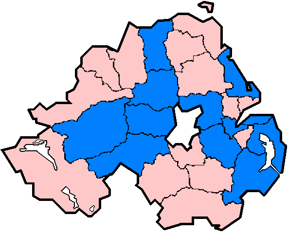 This image indicates in blue the districts (1973 definition) in Northern Ireland affected by flooding on/by July 24th 2007. Every effort has been made to reduce error, and I apologise for any errors/omissions. Some areas with only minor damage have been omitted. Citations for the affected areas can be found here.